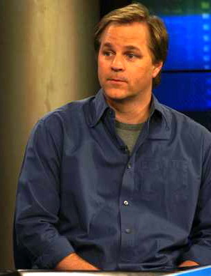 A photo of Karey Kirkpatrick when he was promoting his animated film Over The Hedge Attribution to: Phil Konstantin